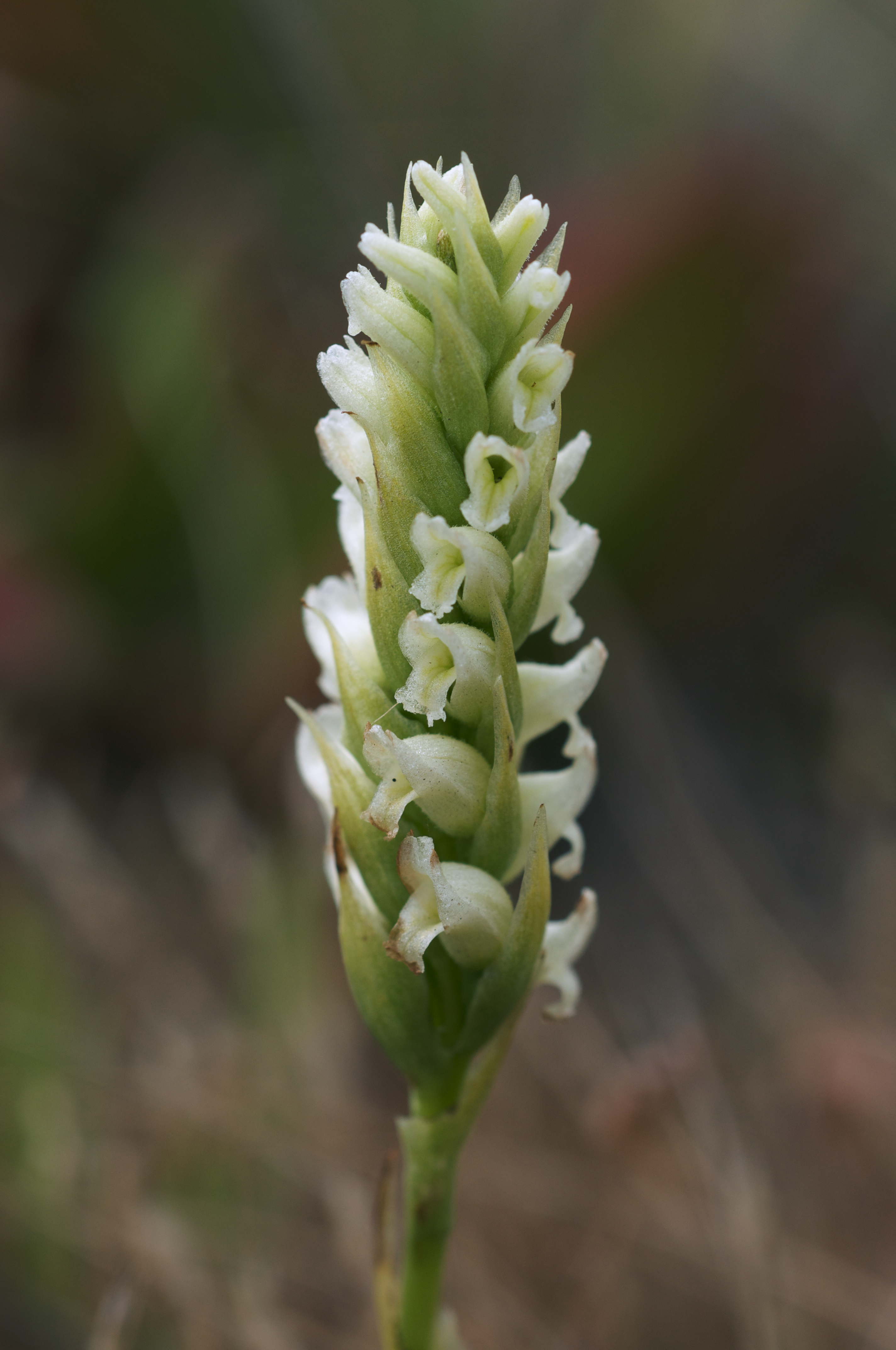 Circumboreal distribution Photographed at Bean Hollow State Beach, San Mateo County, California